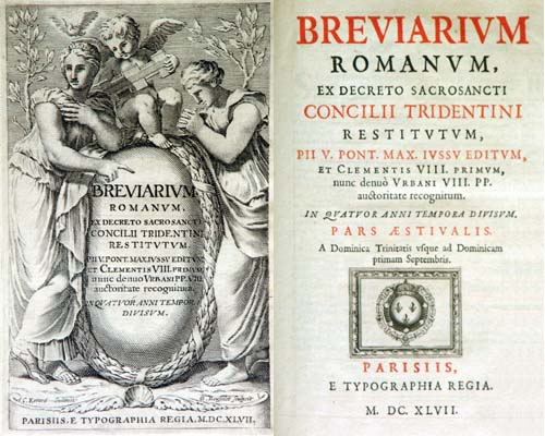 BREVIARIUM ROMANUM, Pars Aestivalis Parisiis 1647. [The file name has a spelling error "romanus" instead of "romanum"].